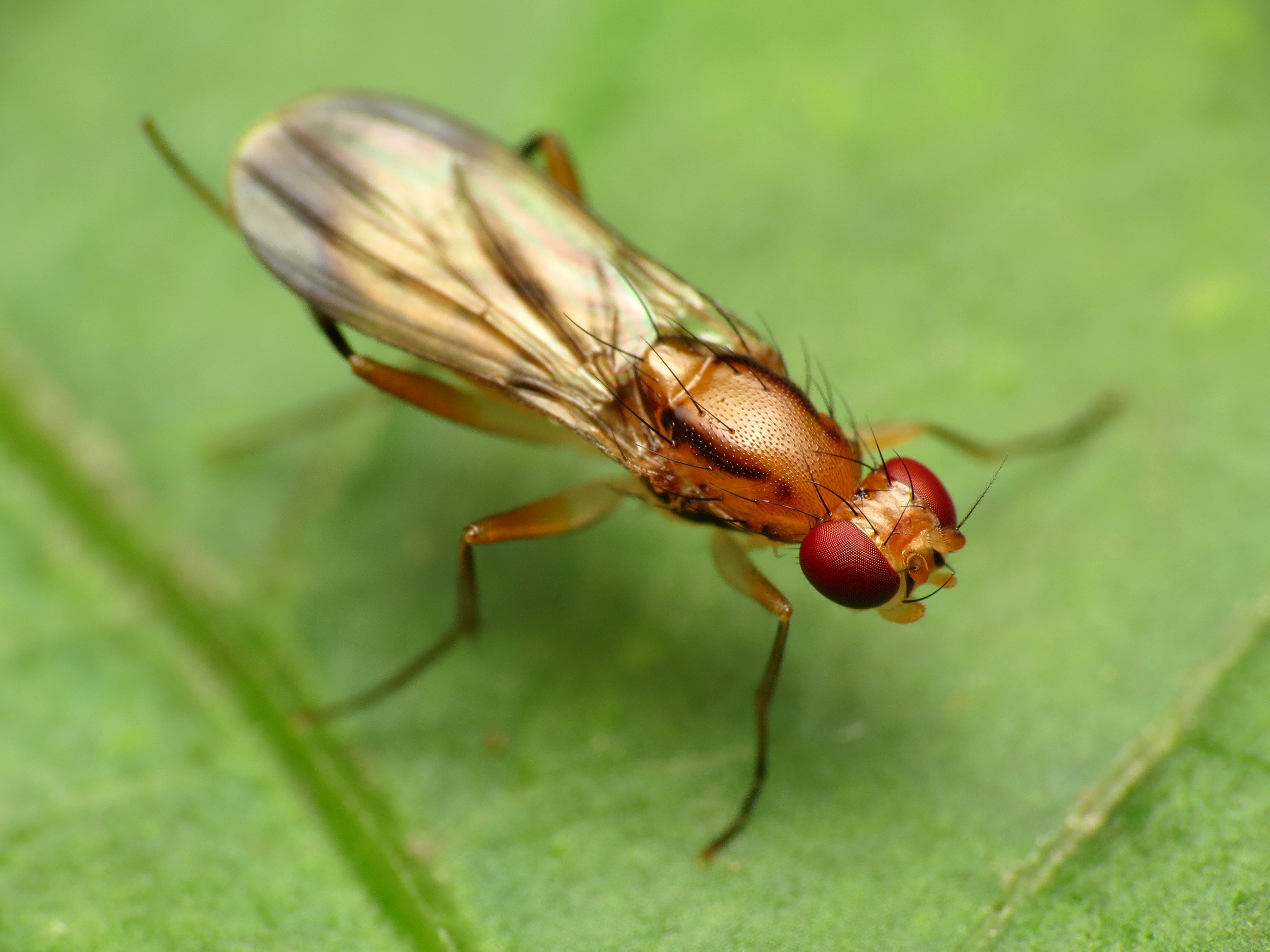 Clusia lateralis. Rock Creek Park, Washington, DC, USA.